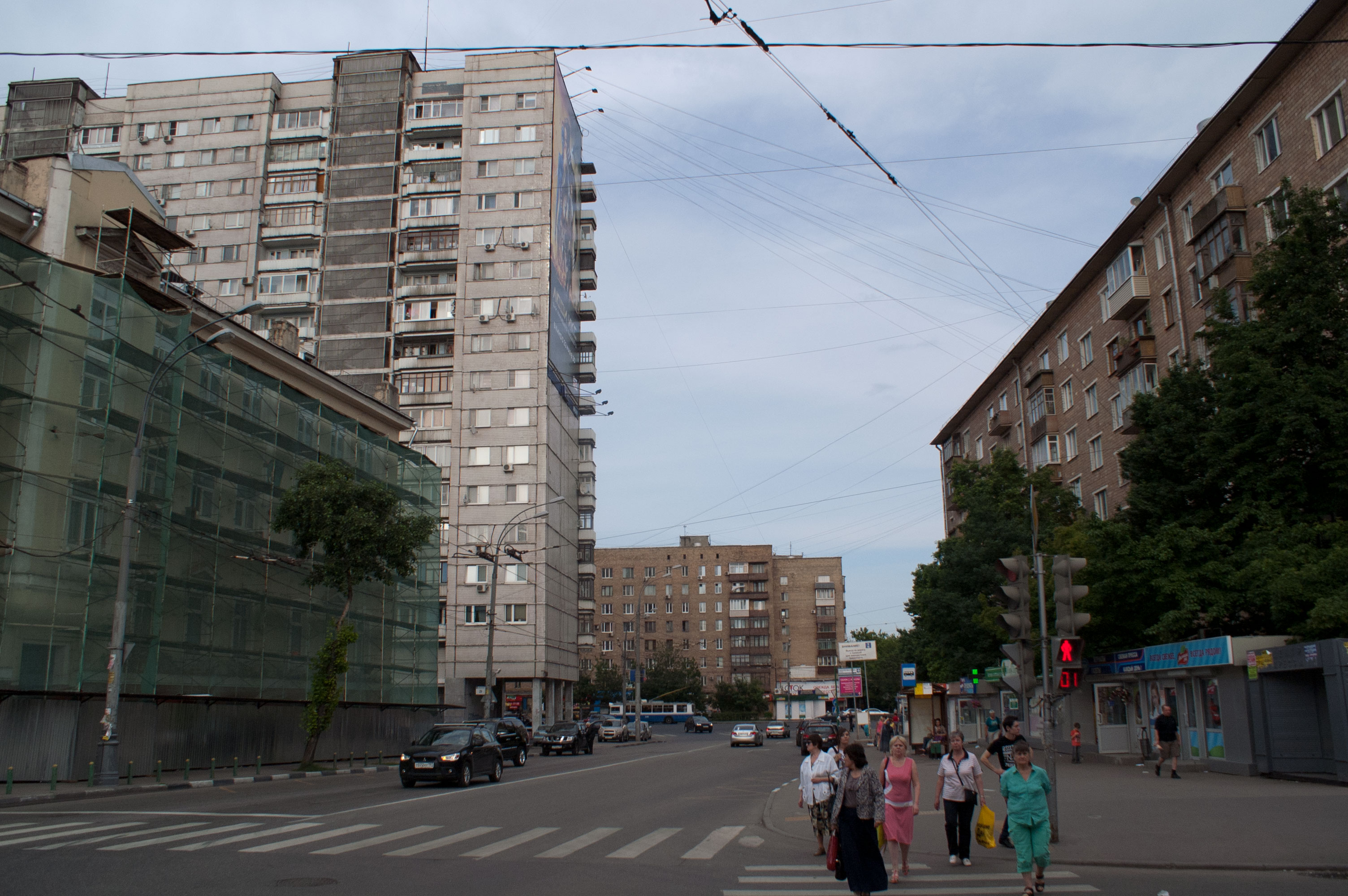 Second Kvesisskaya Ulitsa (street) in Moscow